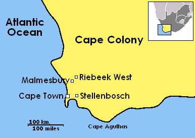 Map of the southwest of the Cape Colony, with main places of interest in Jan Smuts' early life and education marked